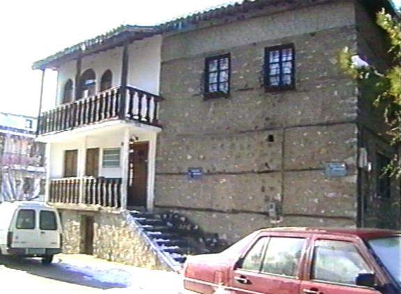 View from outside, image from the Delinanios Folklore Museum, Kastoria, West Macedonia, Greece